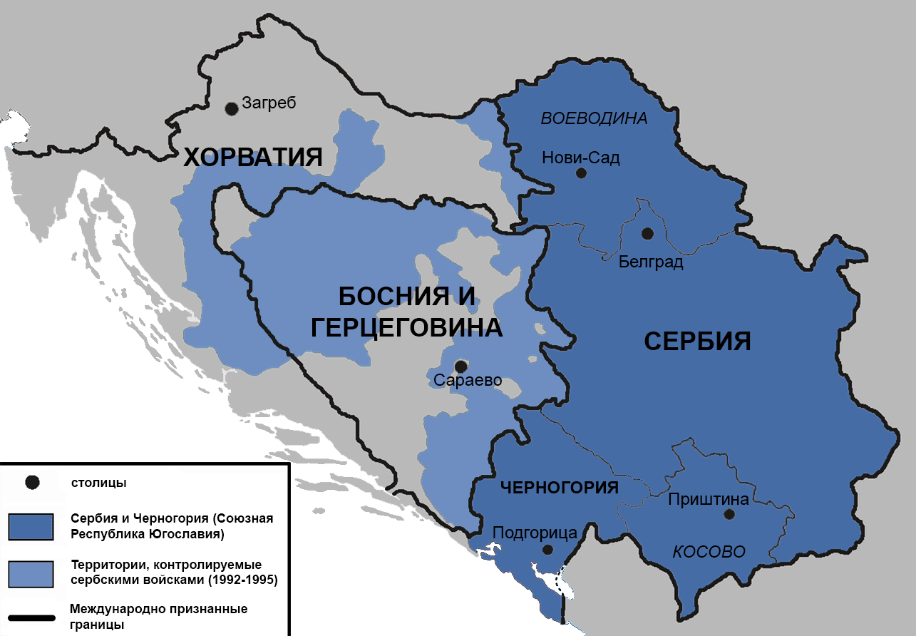 Territories of the Republic of Bosnia and Herzegovina and the Republic of Croatia controlled by the Serb forces, after the Operation Corridor (July 1992) in the Yugoslav Wars.